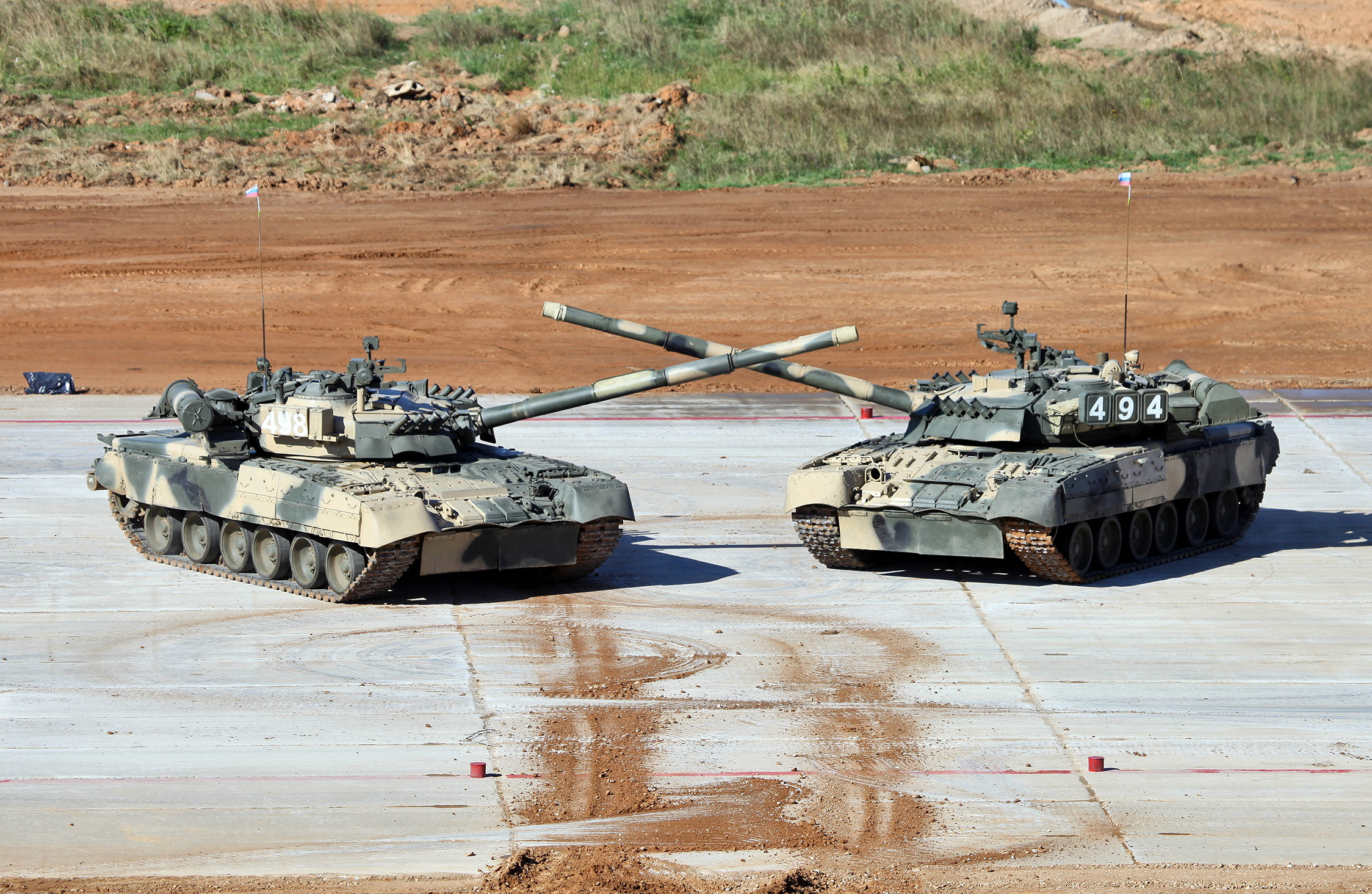 T-80U